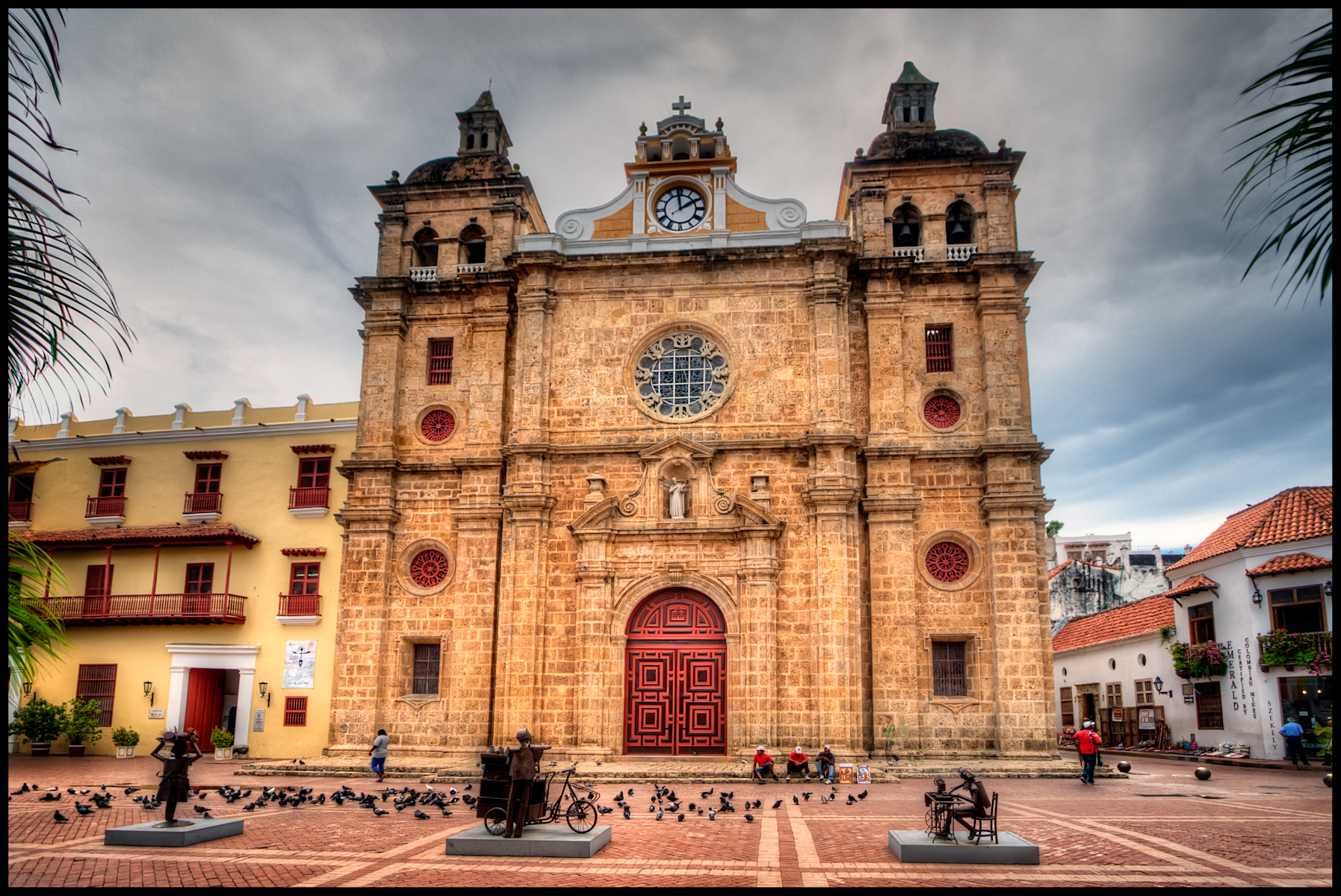 I went to Cartagena too when I visited Colombia. Wonderful place. The old walled city is very charming, nicely restored, has lots of nice restaurants, boutique hotels and interesting stores. The warm Caribean beaches are just a few minutes away walking. What can I say, I had a wonderful time there, too short! HDR of three handheld shots. I just didn't feel like carrying the tripod during the day. My usual workflow starting with Photomatix 4 details enhancer, then Noiseware noise reduction. Then Nik patched up a hole in the sky, Nik Pro Contrast, Nik Viveza 2 to liven the church, especially the top of the towers which Photomatix made dark. I find Viveza very useful to correct things that Photomatix does incorrectly. Livened the red portholes and door on the church. Corrected perspective distortion, then some burning around the edges. I am not thrilled with the composition. I wanted to shoot it dead center so the perspective would be nicer, but then the statue would have covered the door. Perhaps the door half way in between the two status would have been better. I have to go back and try it, Yeah!